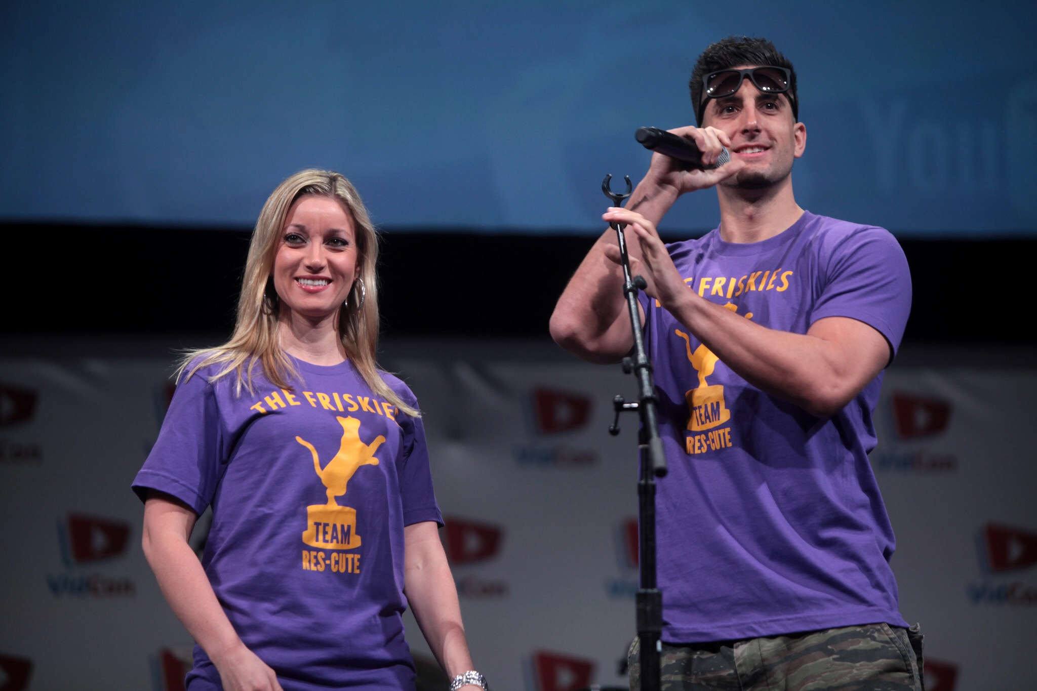 Jeana and Jesse Wellens speaking at the 2014 VidCon at the Anaheim Convention Center in Anaheim, California